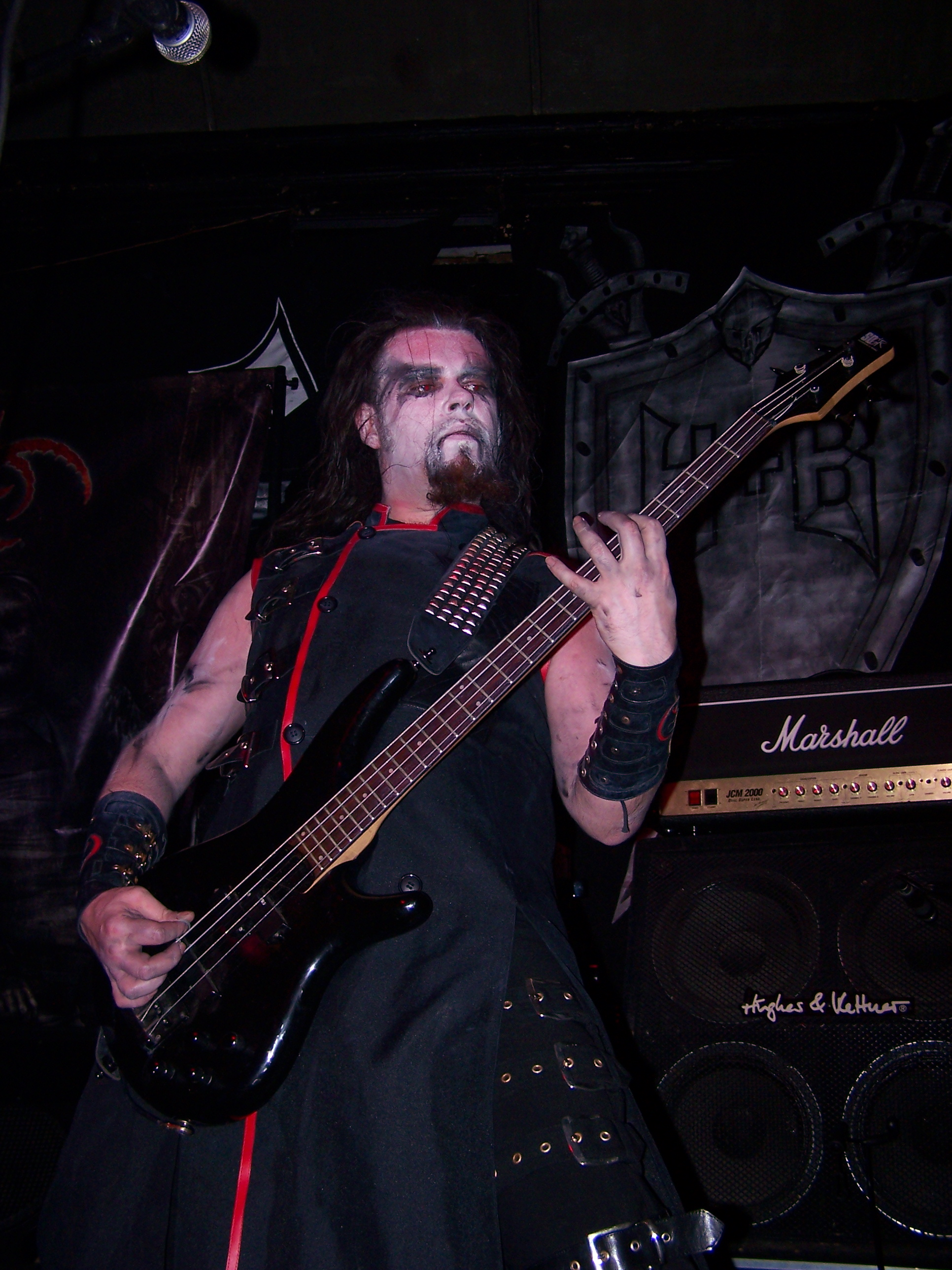 Hal from metal band Herm in Mega Club in Katowice.